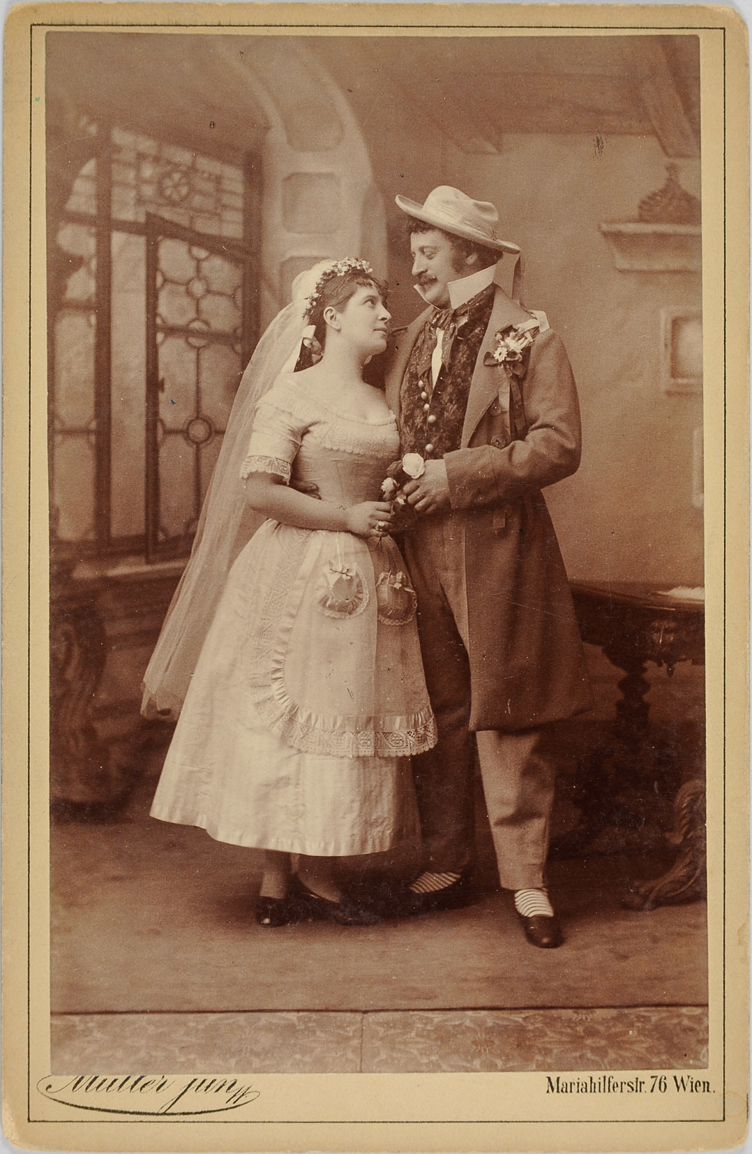 Katharina von Náday (Jeannette) & Willibald Horwitz (Jean) in Victor Massé's Les noces de Jeannette (k. u. k. Hofoper, 1884, Vienna)